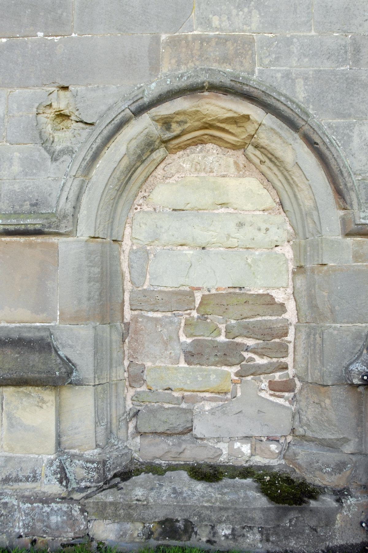 Blocked north doorway of St Bartholomew's parish church, Tong, Shropshire